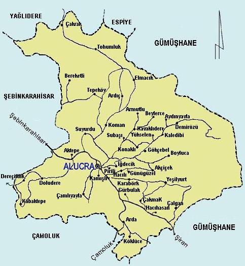 Map of Alucra.